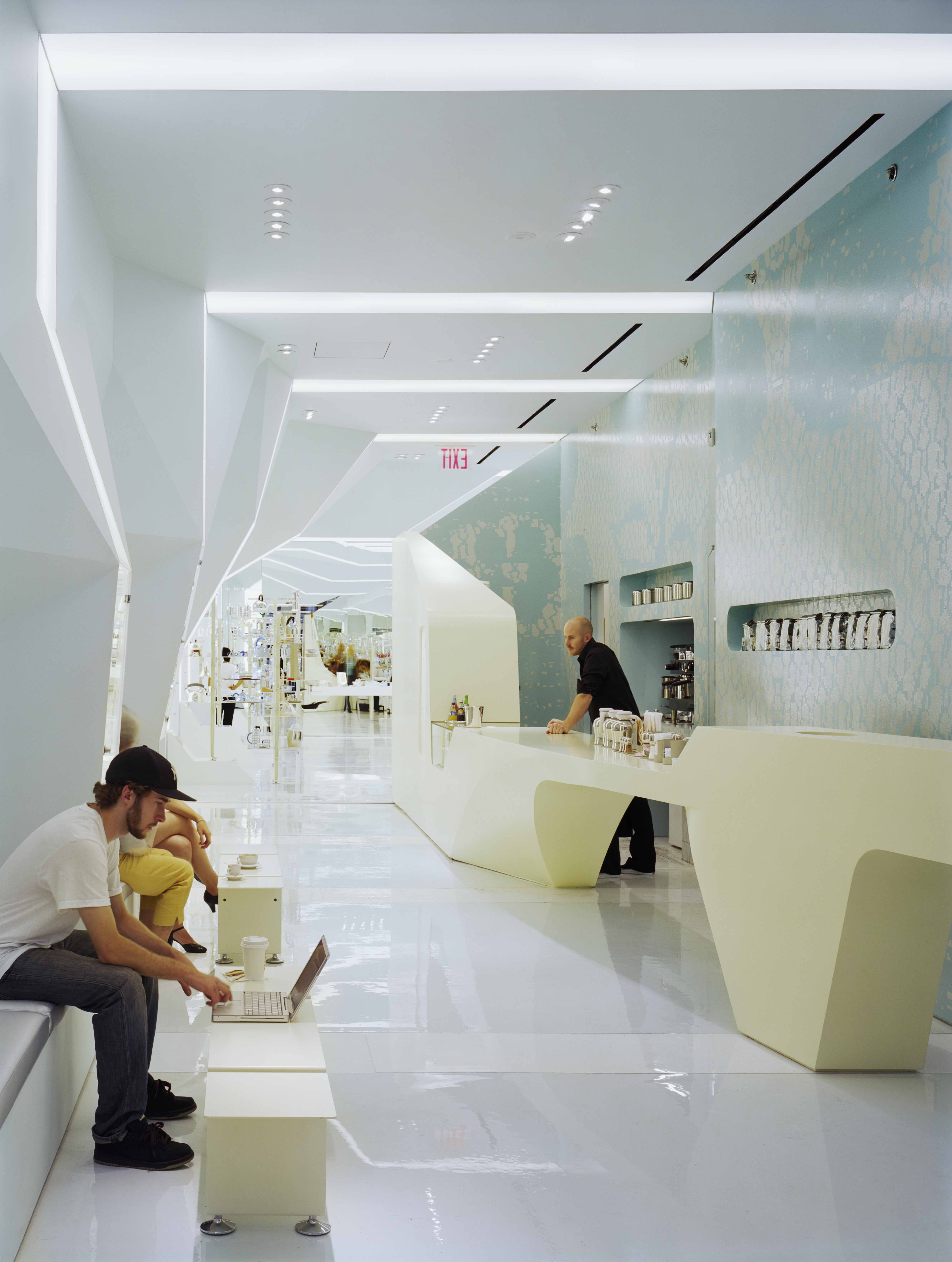 Alessi Flagship Store, New York, NY. Photo by Elizabeth Felicella, courtesy of Asymptote Architecture.